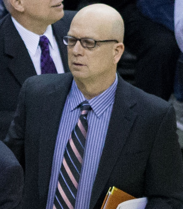 New York Knicks at Washington Wizards March 1, 2013 - Wizards asst. coach Jerry Sichting.